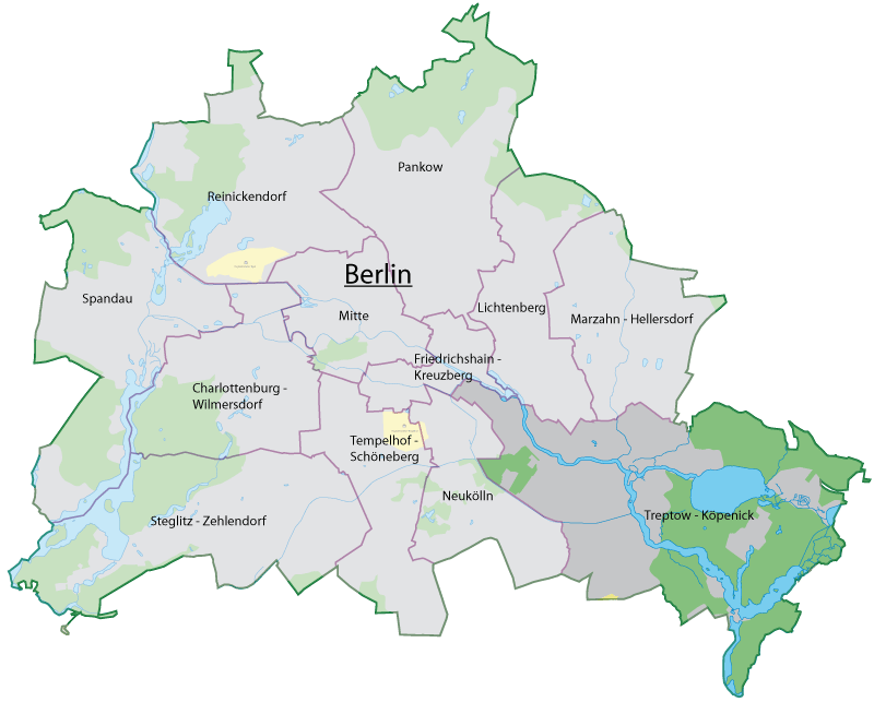 Author: Felix Hahn Source: Based on Water map of Berlin Description: Map of Berlin and its districts.